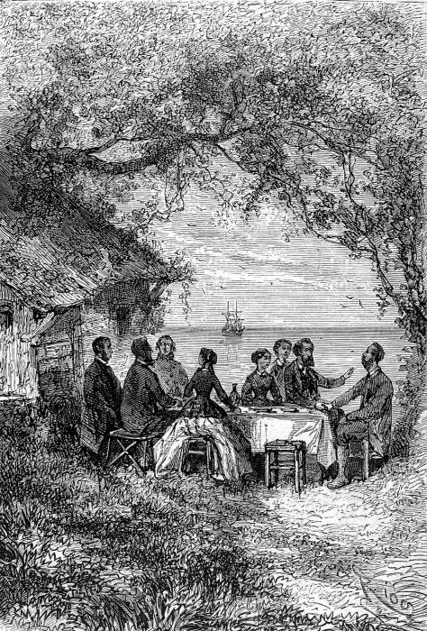 An ilustration from the novel "In Search of the Castaways; or Captain Grant's Children" by Jules Verne drawn by Édouard Riou.